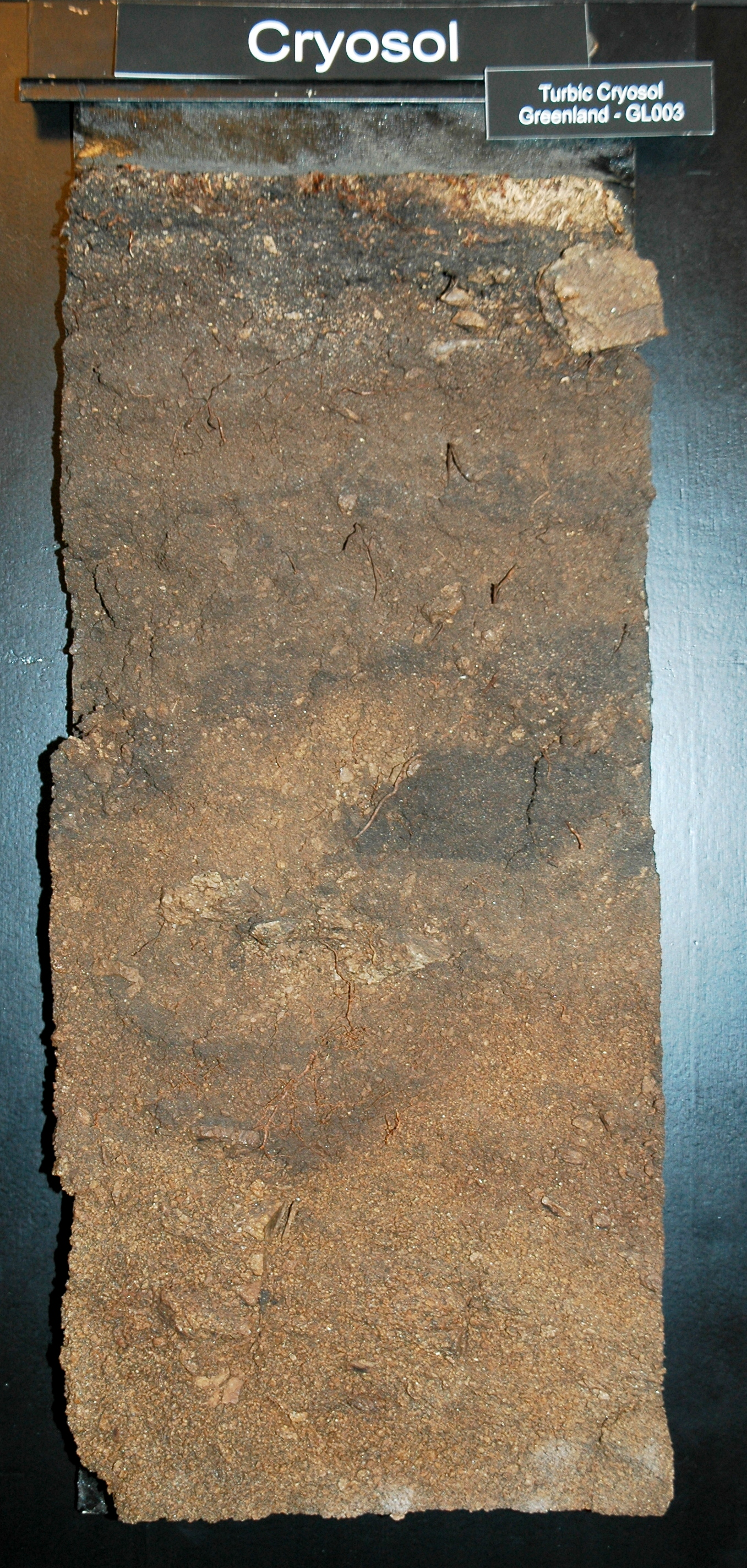 Soil profile of a Turbic Cryosol